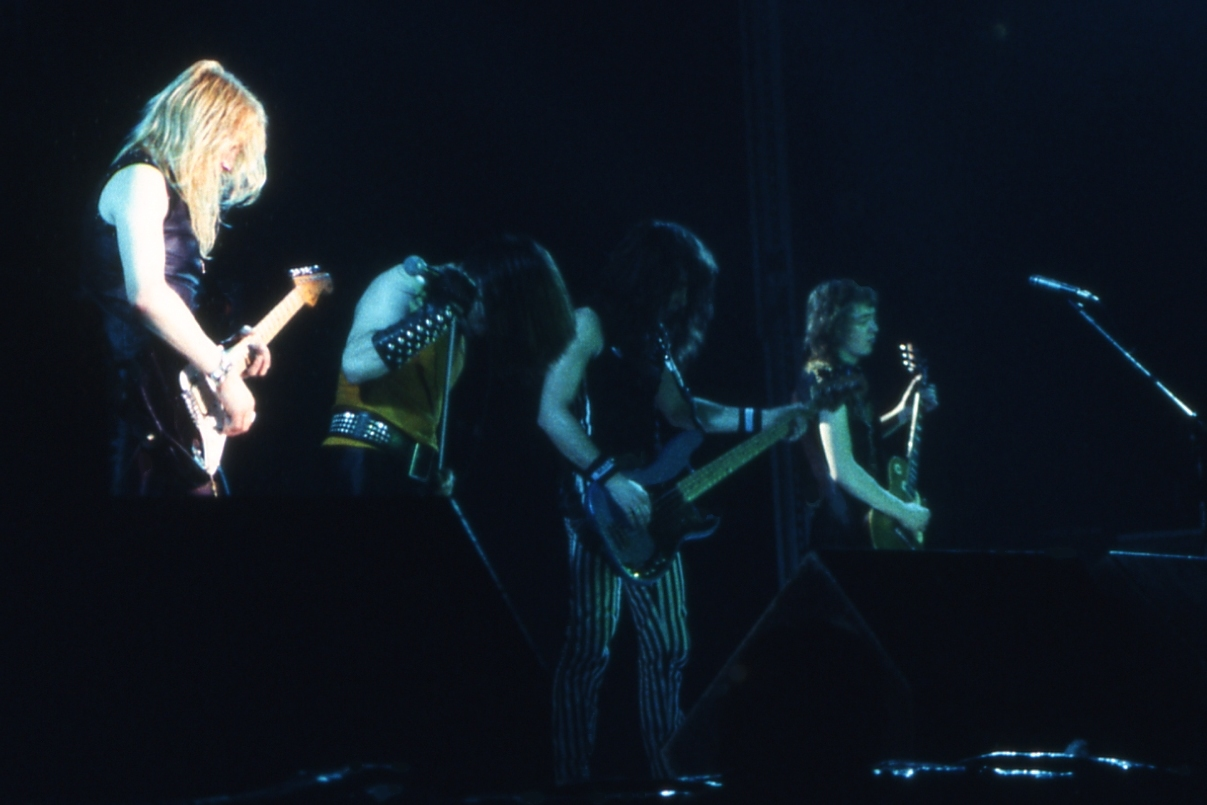 Iron Maiden in 1982